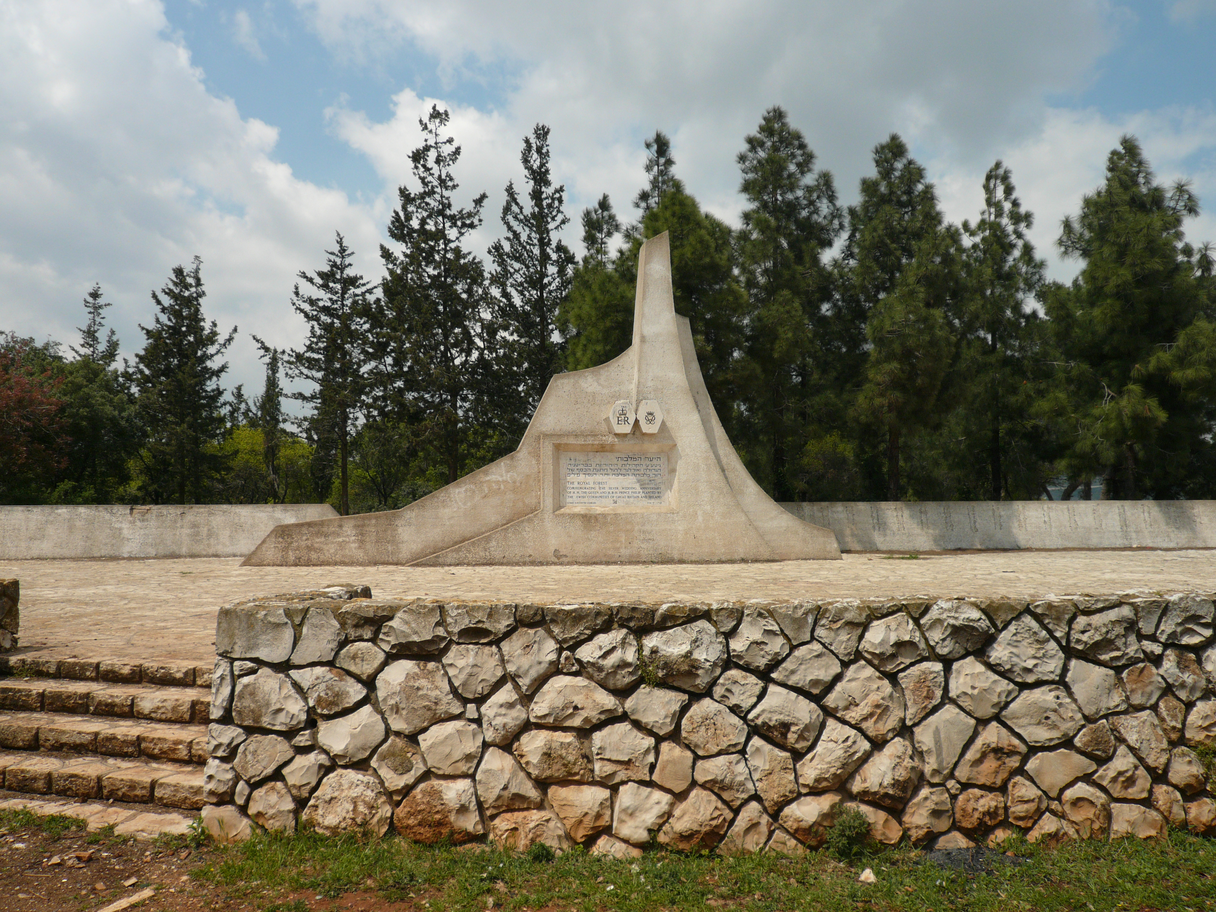 On the top of Har Dvora, mountain in Israel